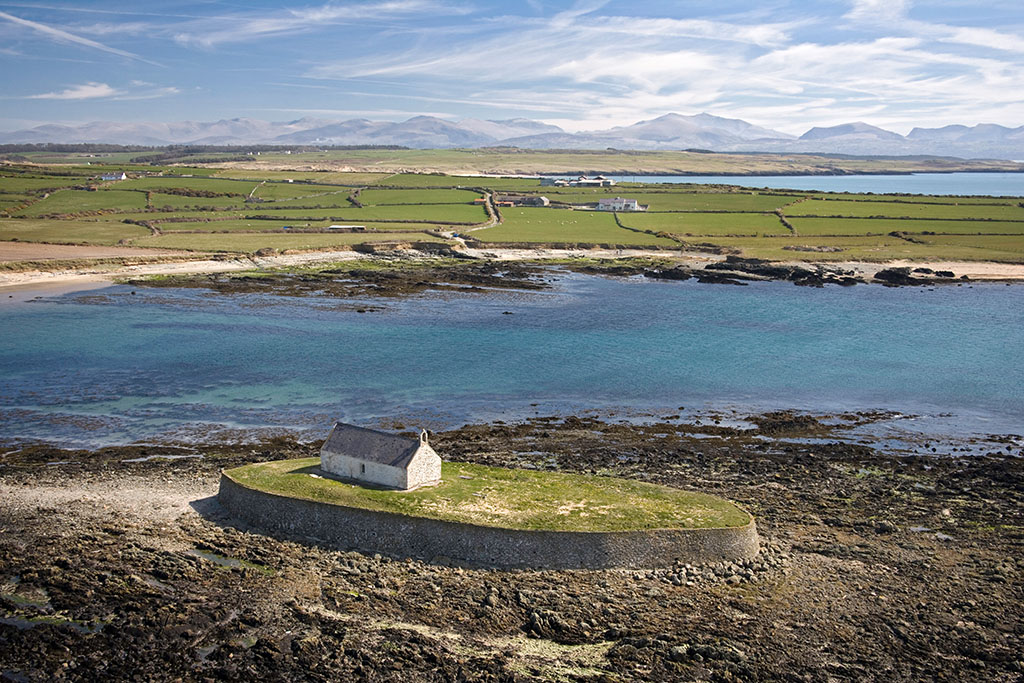 St Cwyfan's Church, Porth Cwyfan (near Aberffraw), Ynys Mon, Cymru / Wales.